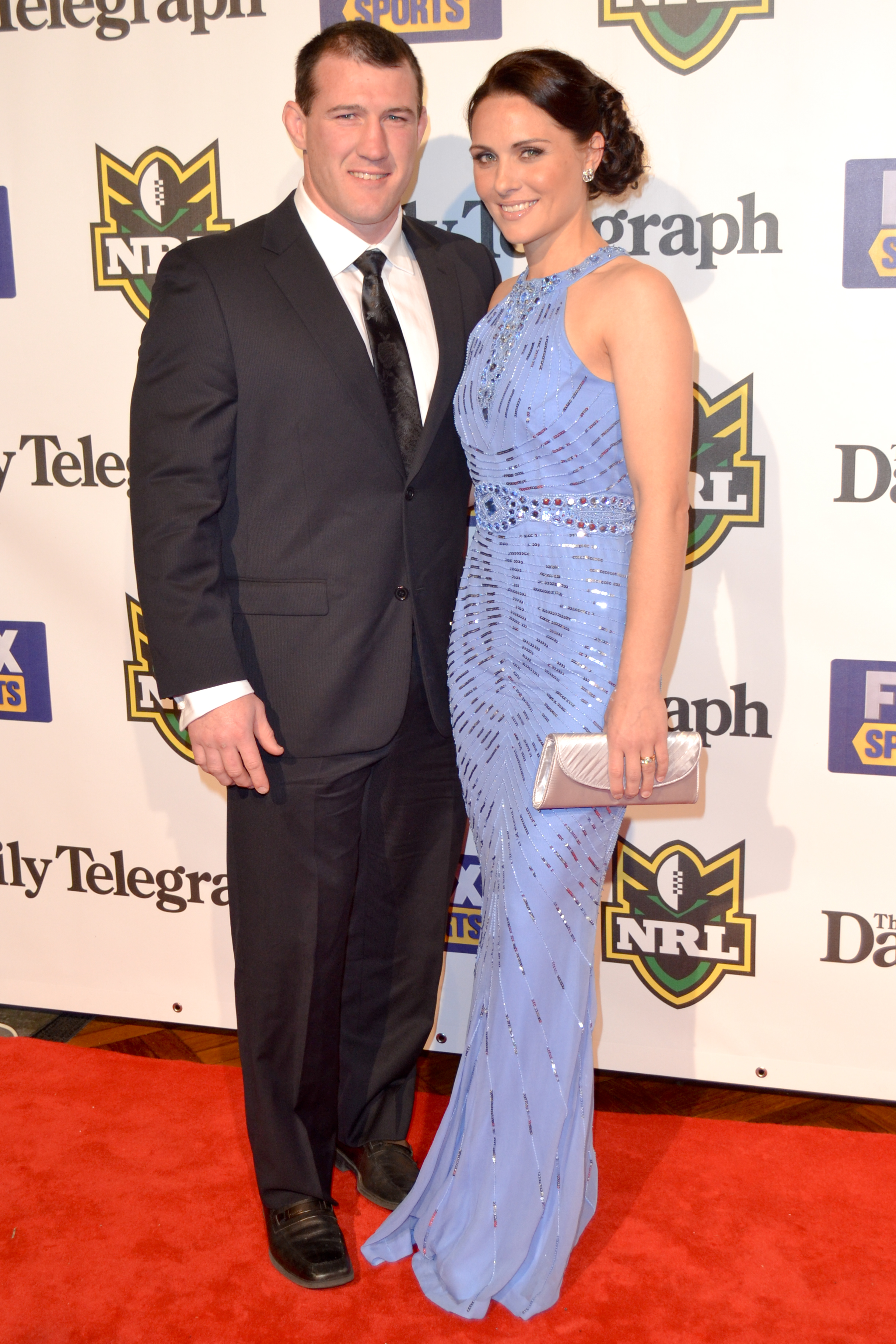 Paul Gallen and fiancée Anne at the 2012 NRL Dally M Awards.